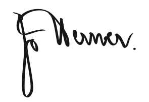 Signature of Ivan Werner, mayor of Zagreb 1941 - 1944